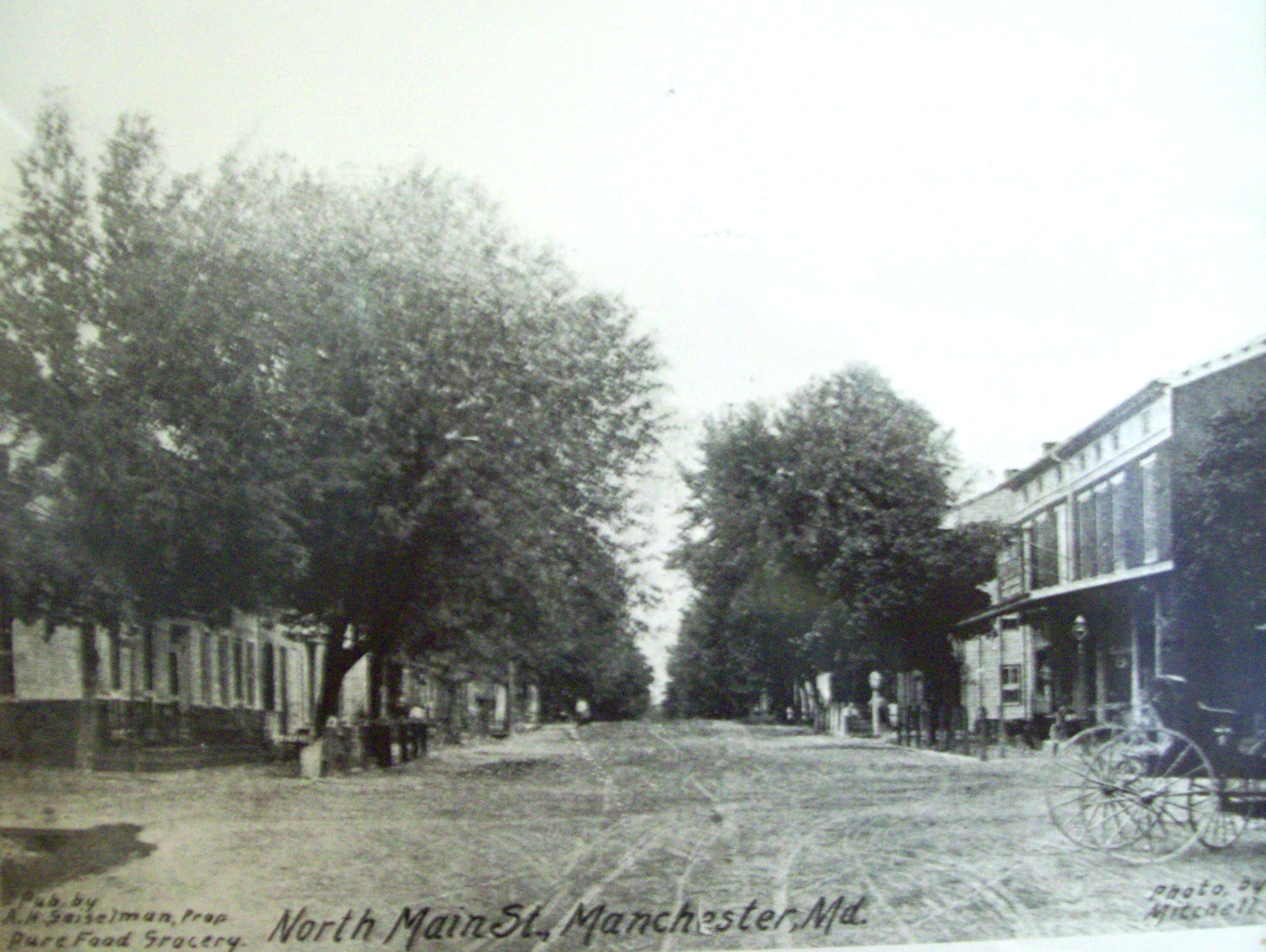 North Main St. Manchester, Maryland circa 1900